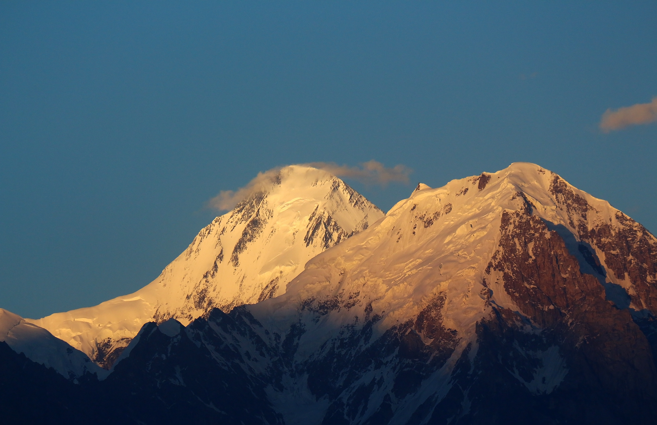 Momhil Sar (7343 m) in the background, viewed from Aliabad